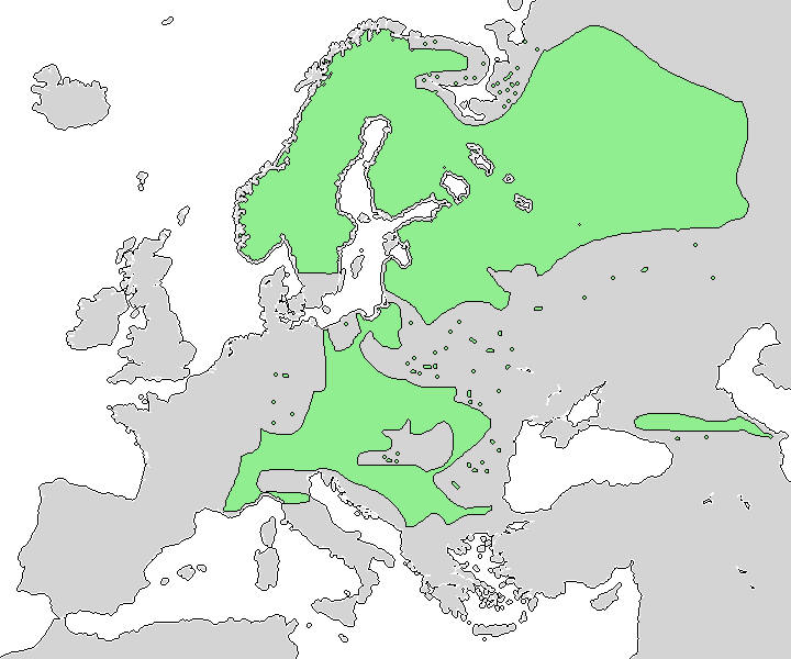 Distribution map of Alnus incana—gray alder in Europe.